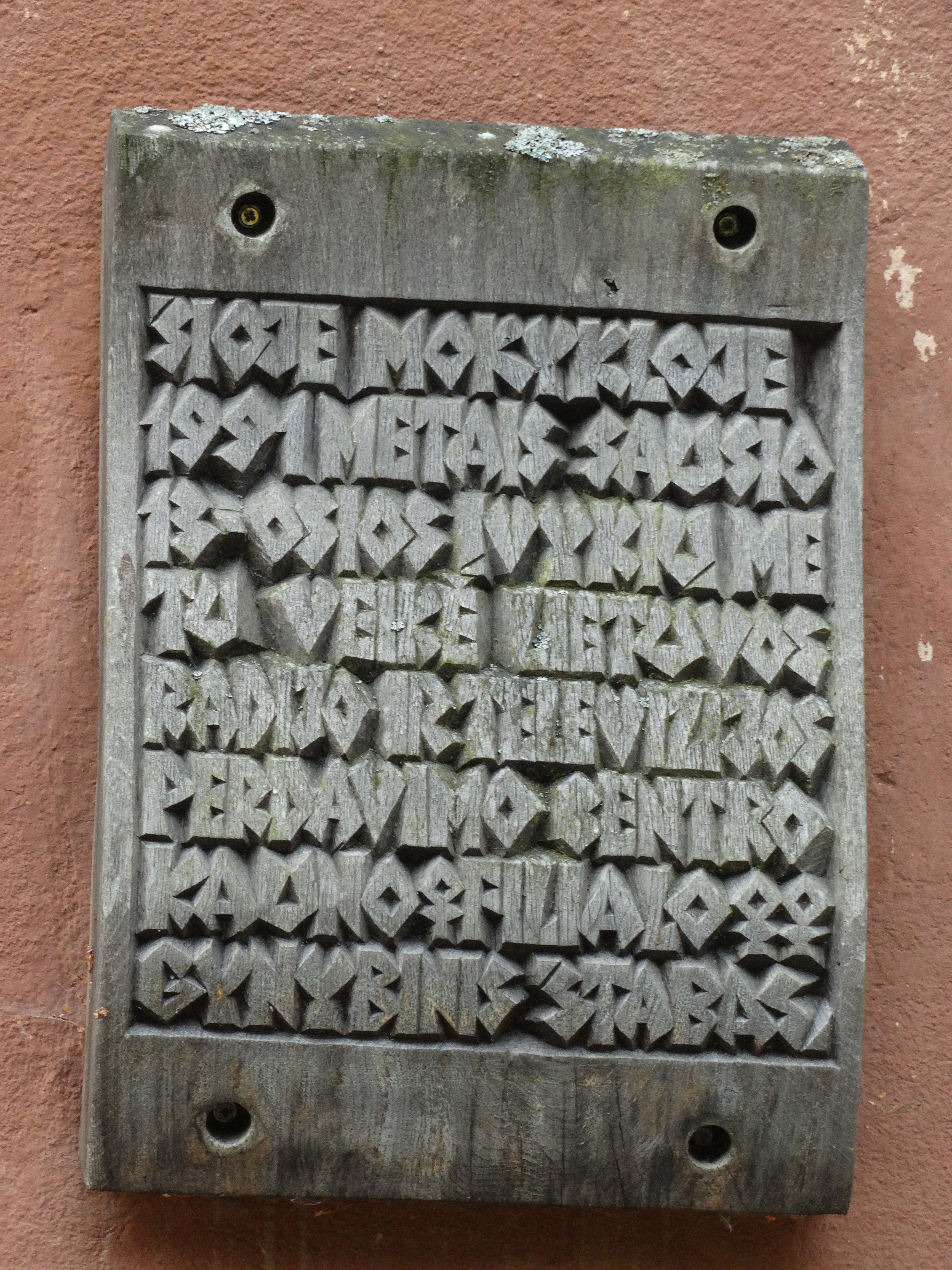 Sitkūnai, memorial plaque to independent radio station in 1991, Kaunas district. Lithuania